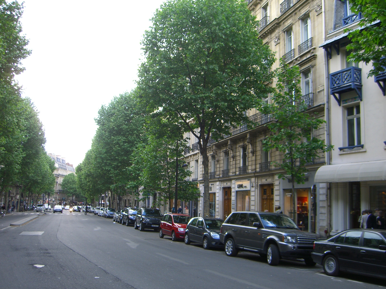 The photo of the Paris building – siege of the Association of Alumni of the National school administration (ENA) with the Prime minister of France, at n°226 boulevard de Saint-Germain, made by Sergey Zhirnoff, a former soviet spy